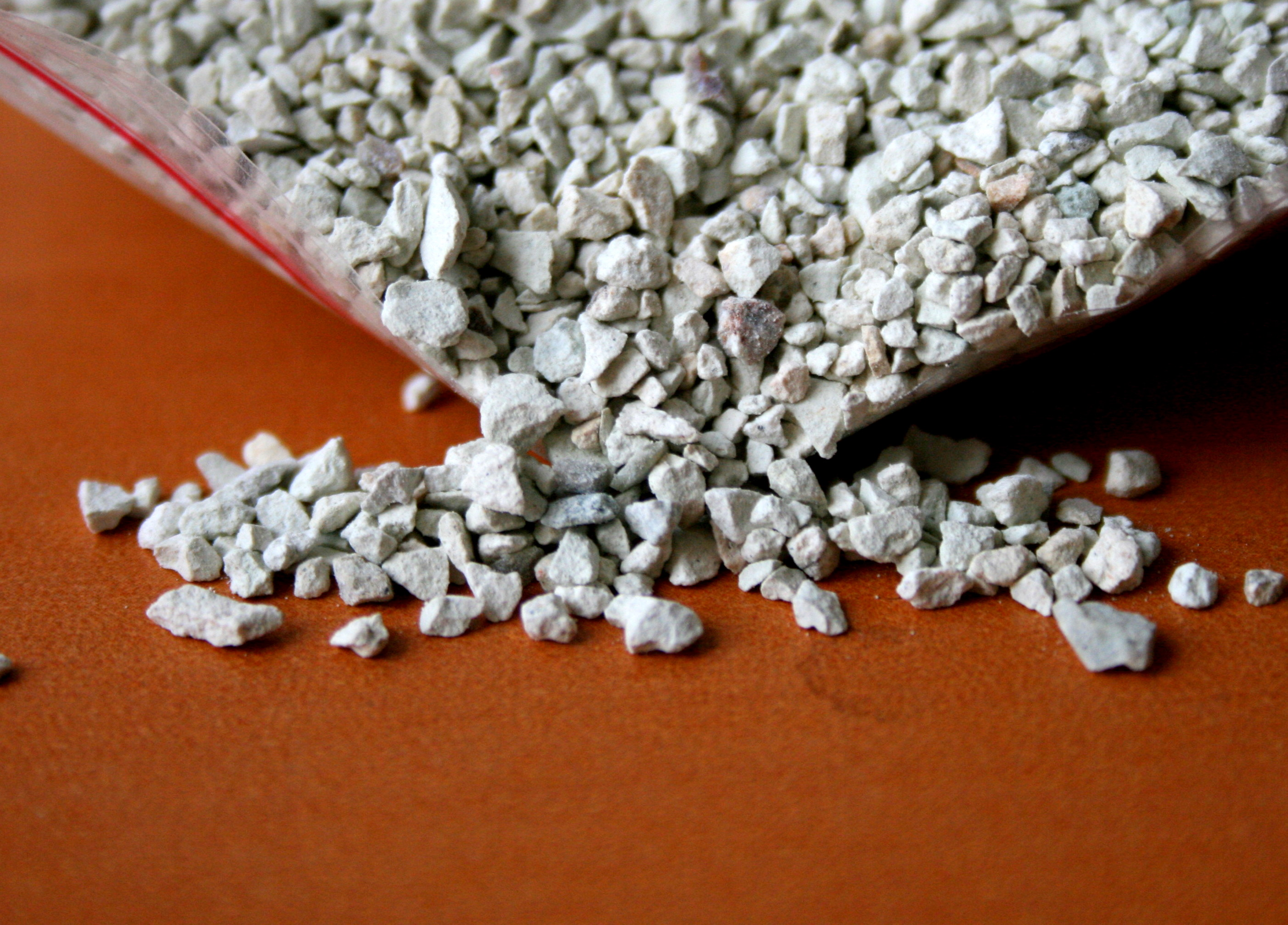 Zeolit